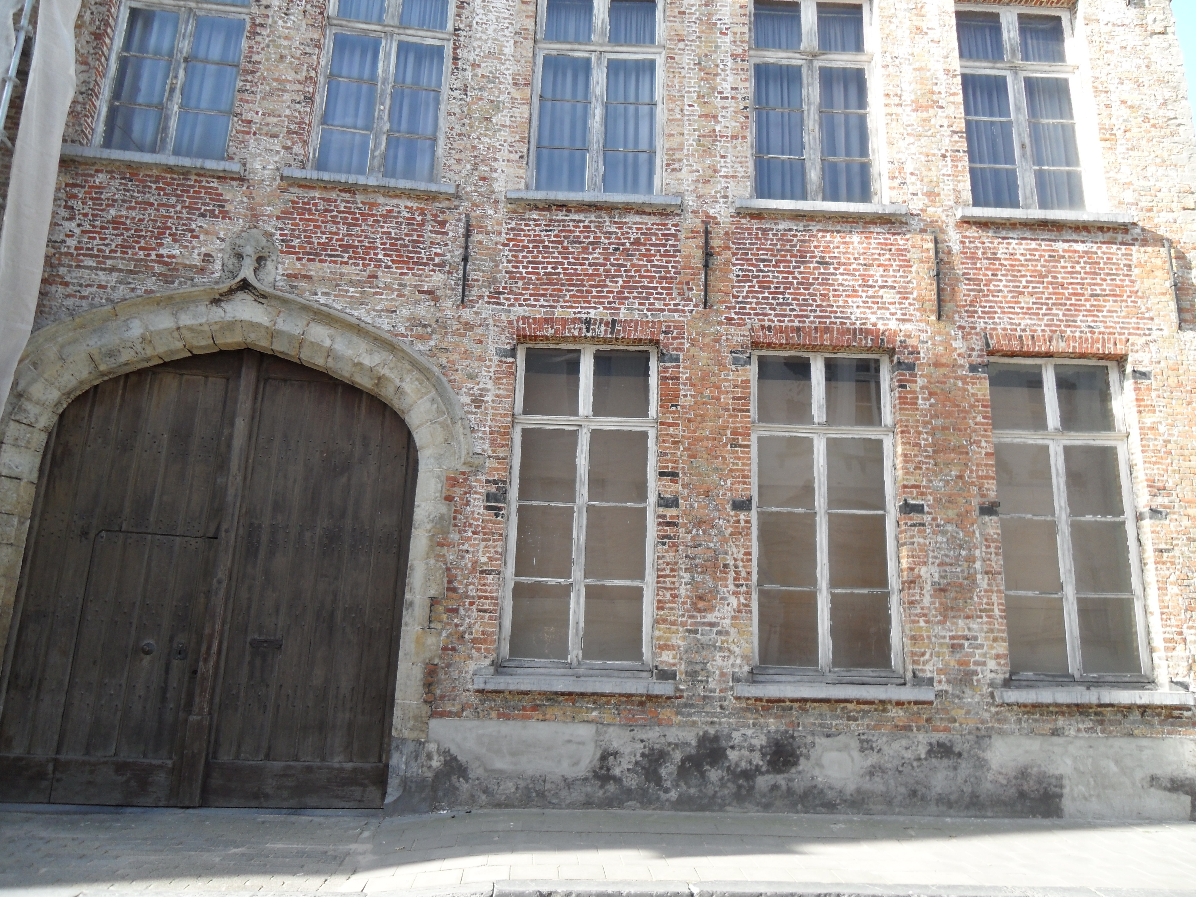 Sint-Jorisstraat in Bruges